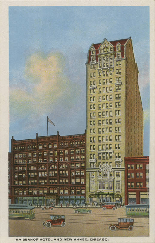 Kaiserhof Hotel And New Annex